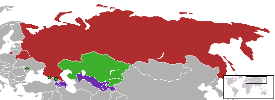 Current members of the Union State. States which have shown interest in joining the Union State. Other Commonwealth of Independent States members.